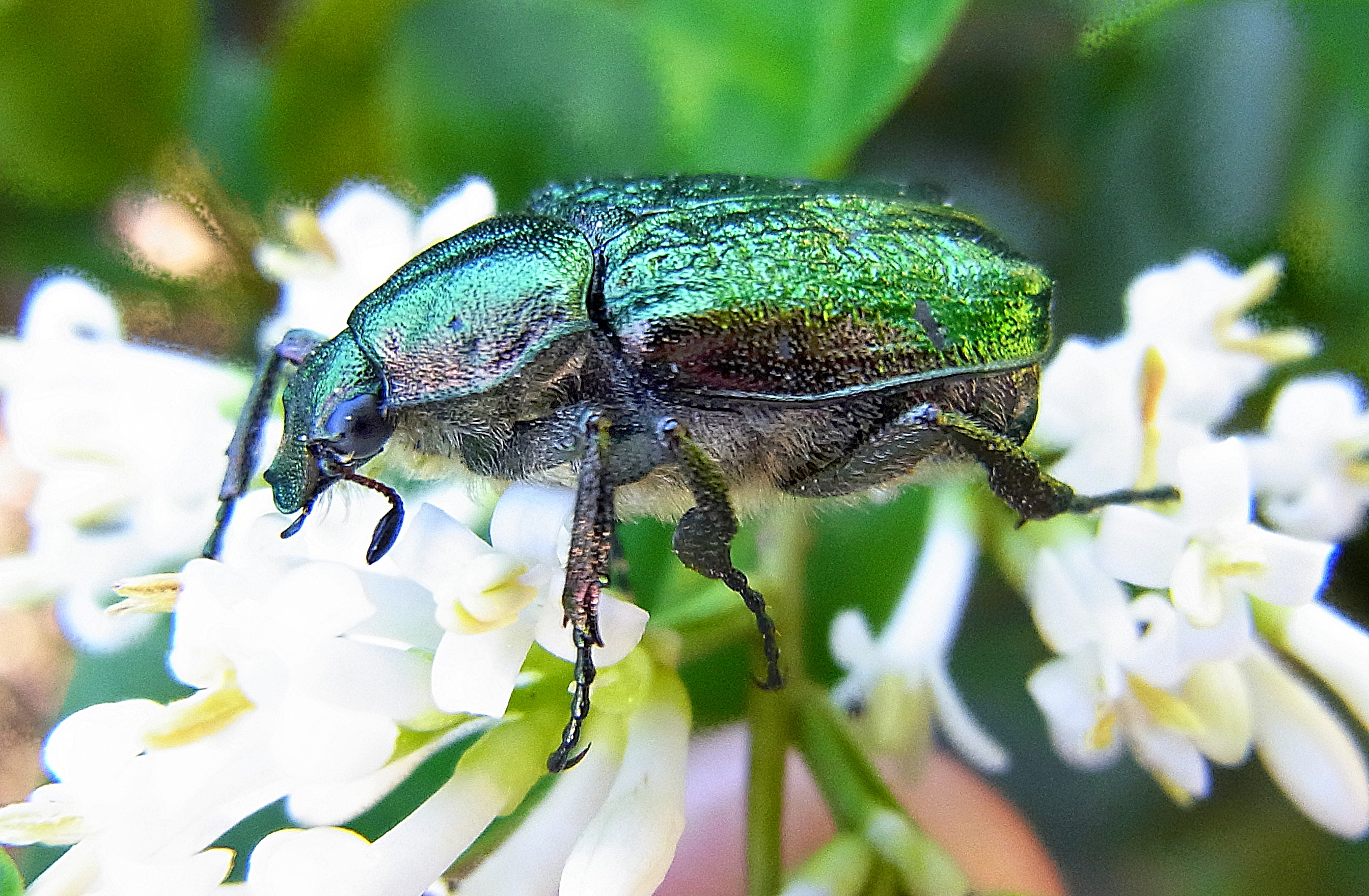 Gnorimus nobilis from Southern France, southeast of Millau, at 2011-06-26